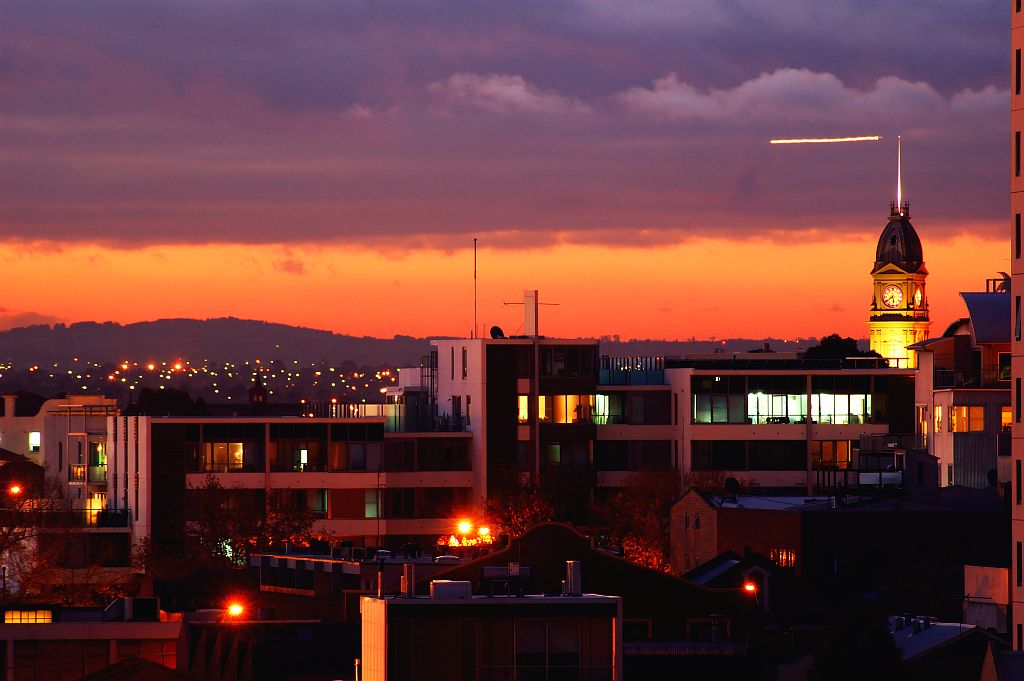 North Melbourne at dusk